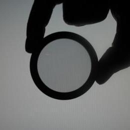 A polarizer in front of a flat screen monitor (the light from the flat screen is polarized). Continued in the pictures : Polariseur3.JPG, Polariseur4.JPG, ...